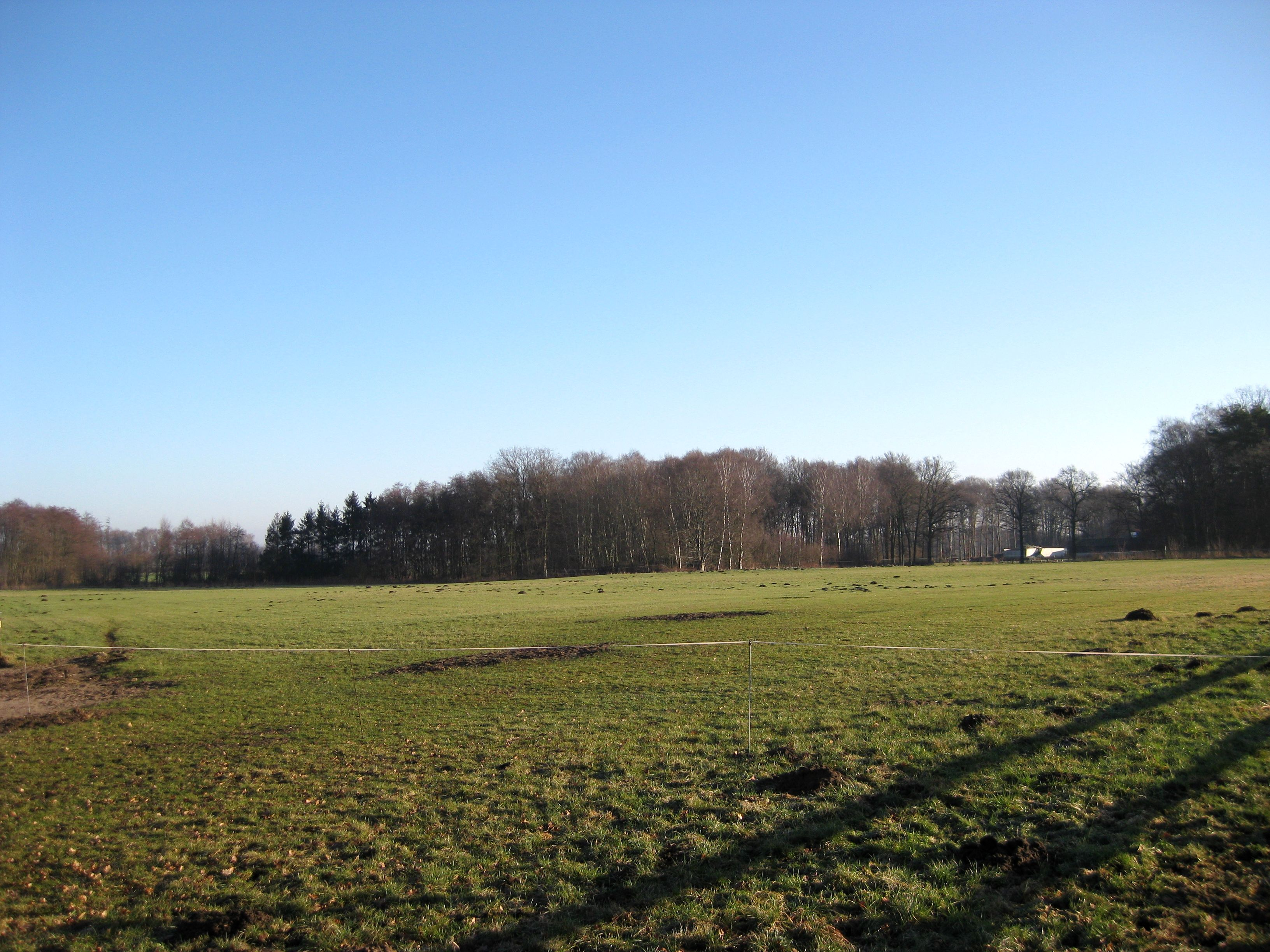 Nature reserve Mersch near Herzebrock-Clarholz